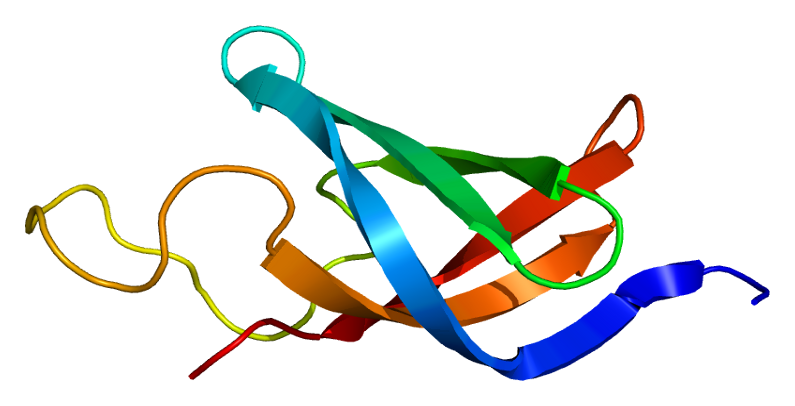 Structure of the YBX1 protein. Based on PyMOL rendering of PDB 1h95.